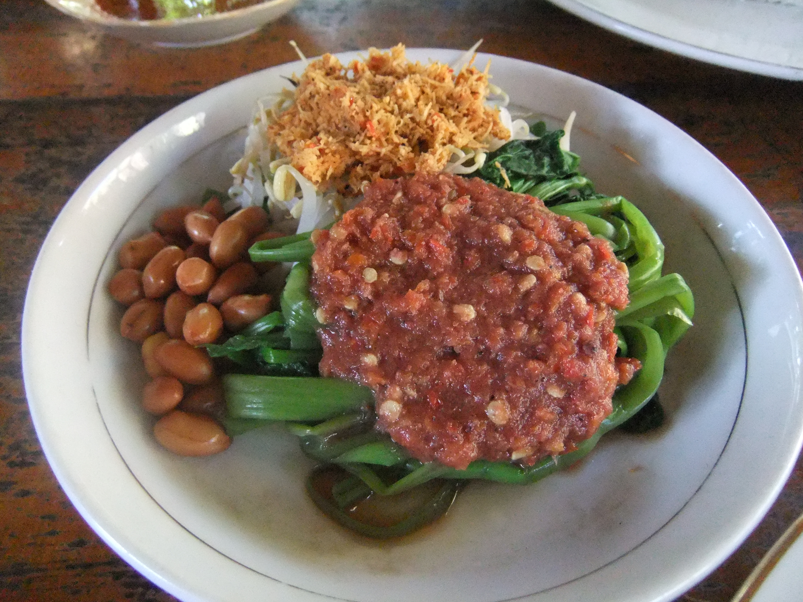 Pelecing Kangkung (water spinach and bean sprouts in sambal and coconuts flakes). Lombok's specialty.